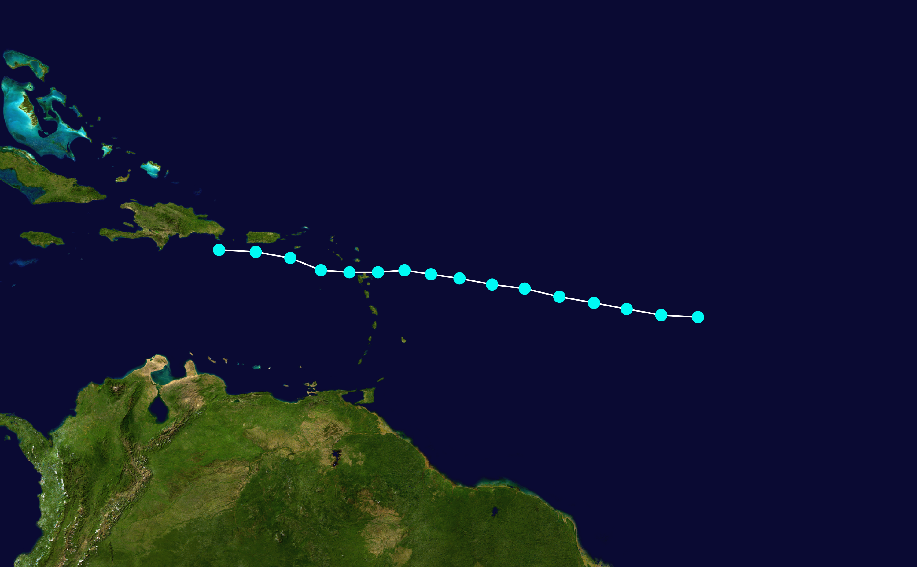 Track map of Tropical Storm Erika of the 2015 Atlantic hurricane season. The points show the location of the storm at 6-hour intervals. The colour represents the storm's maximum sustained wind speeds as classified in the Saffir–Simpson scale (see below), and the shape of the data points represent the nature of the storm, according to the legend below. Saffir–Simpson scale Tropical depression≤38 mph≤62 km/h Category 3111–129 mph178–208 km/h Tropical storm39–73 mph63–118 km/h Category 4130–156 mph209–251 km/h Category 174–95 mph119–153 km/h Category 5≥157 mph≥252 km/h Category 296–110 mph154–177 km/h Unknown Storm type Tropical cyclone Subtropical cyclone Extratropical cyclone / Remnant low / Tropical disturbance / Monsoon depression